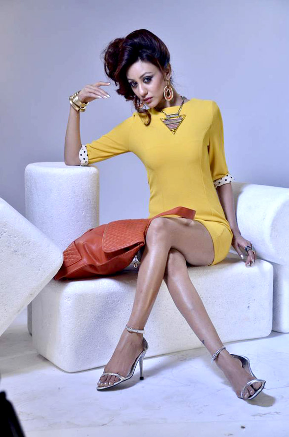 Vedita pratap photoshoot